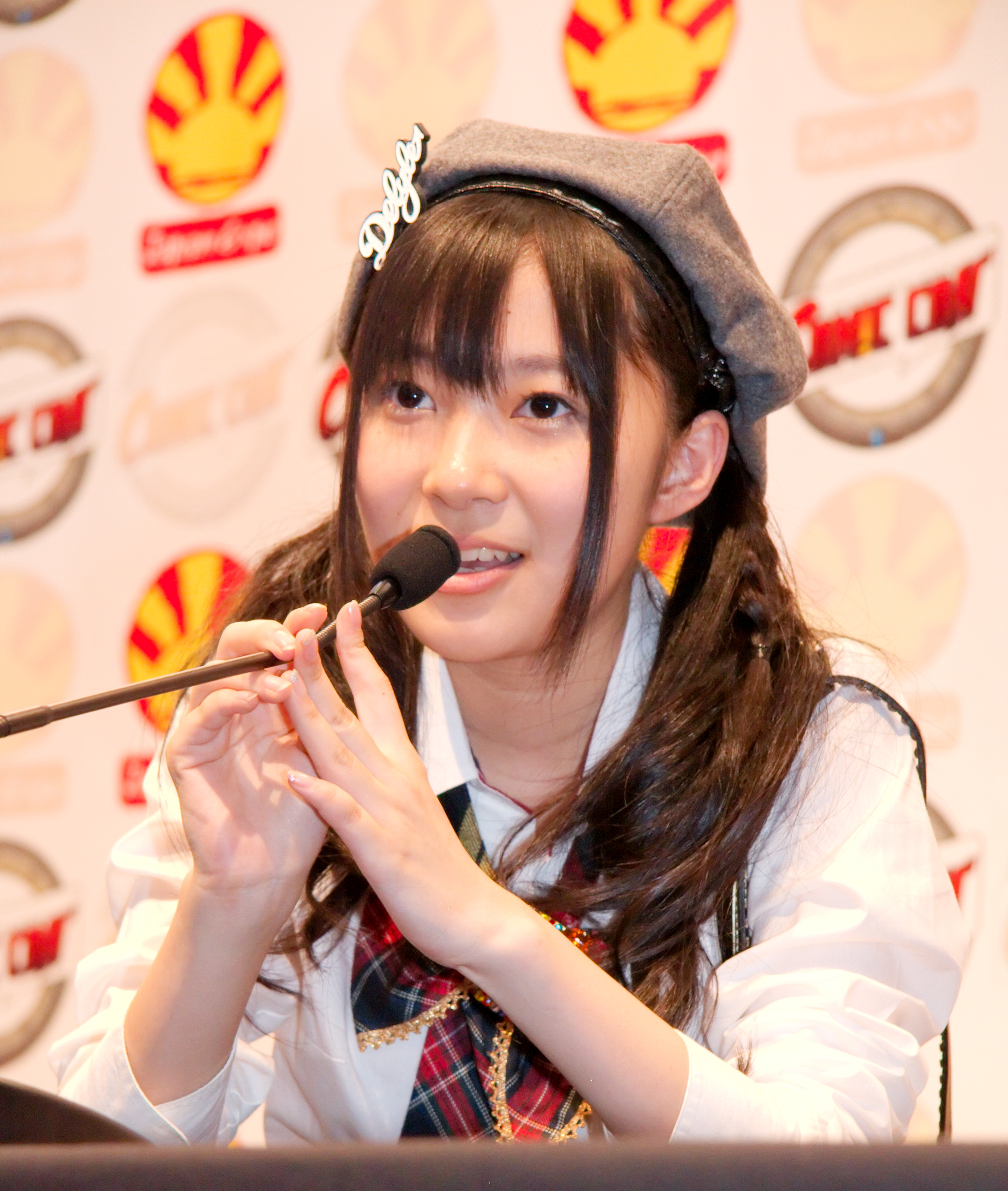 Rino Sashihara of AKB48 during lecture at Japan Expo 2009 (Paris, France).